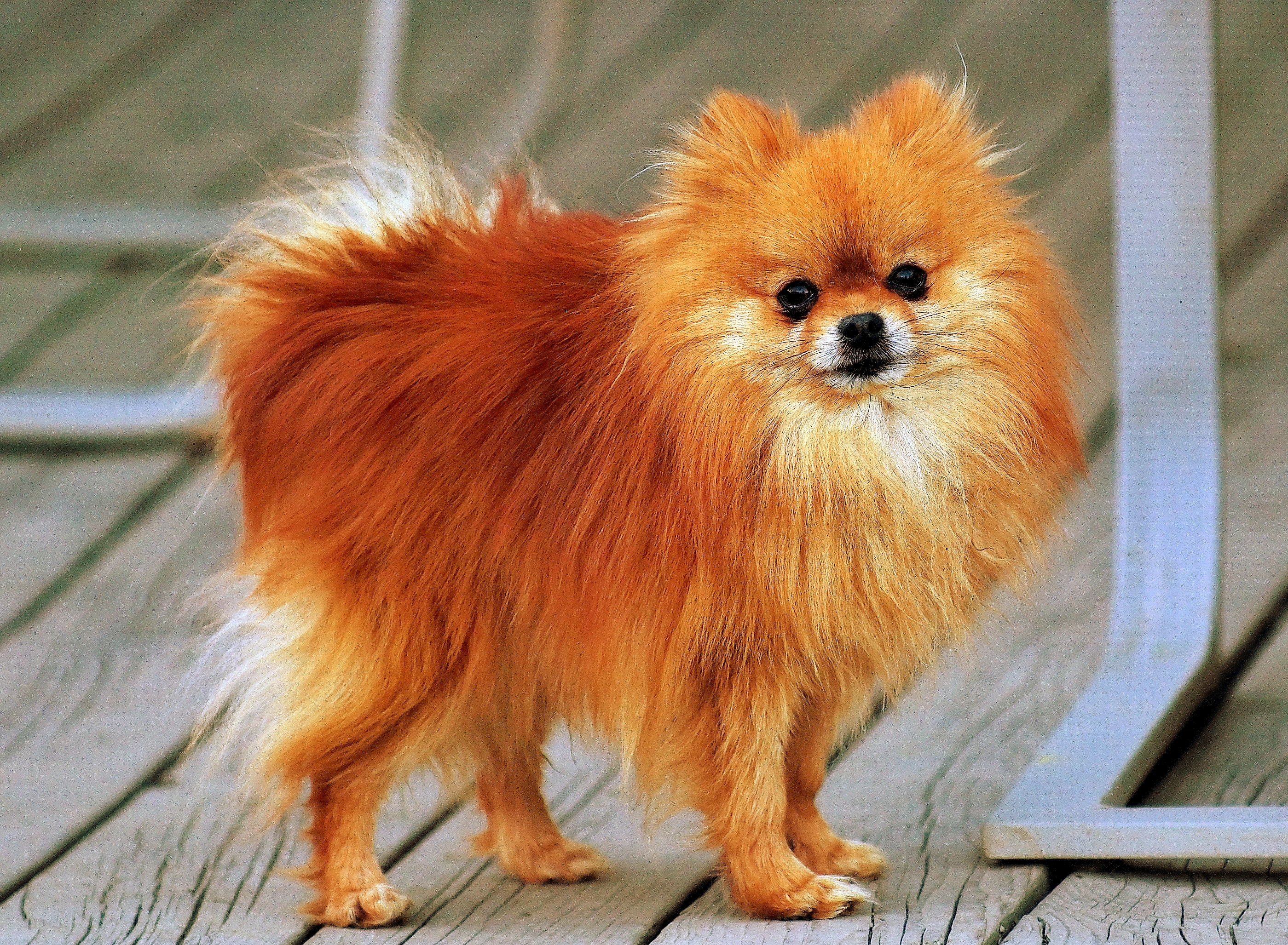 An orange-sable Pomeranian named Coco.